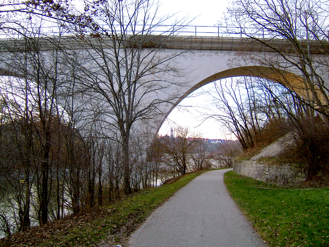 Schlichemtalsperre in Schömberg (bei Balingen), Baden Württemberg, Germany; Schlichem viaduct, view to Schömberg